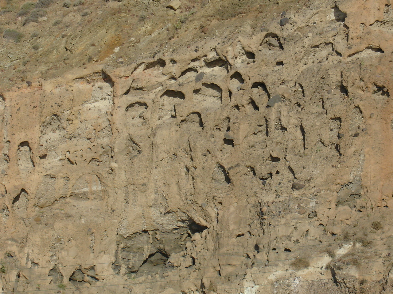 Erosion of rocks, Santorini, Greece.